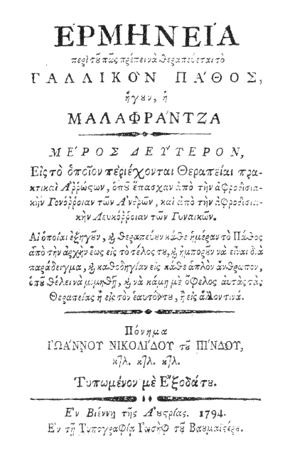 "Erminia", second part, author Ioannis Nikolidis (1745 - 1828).